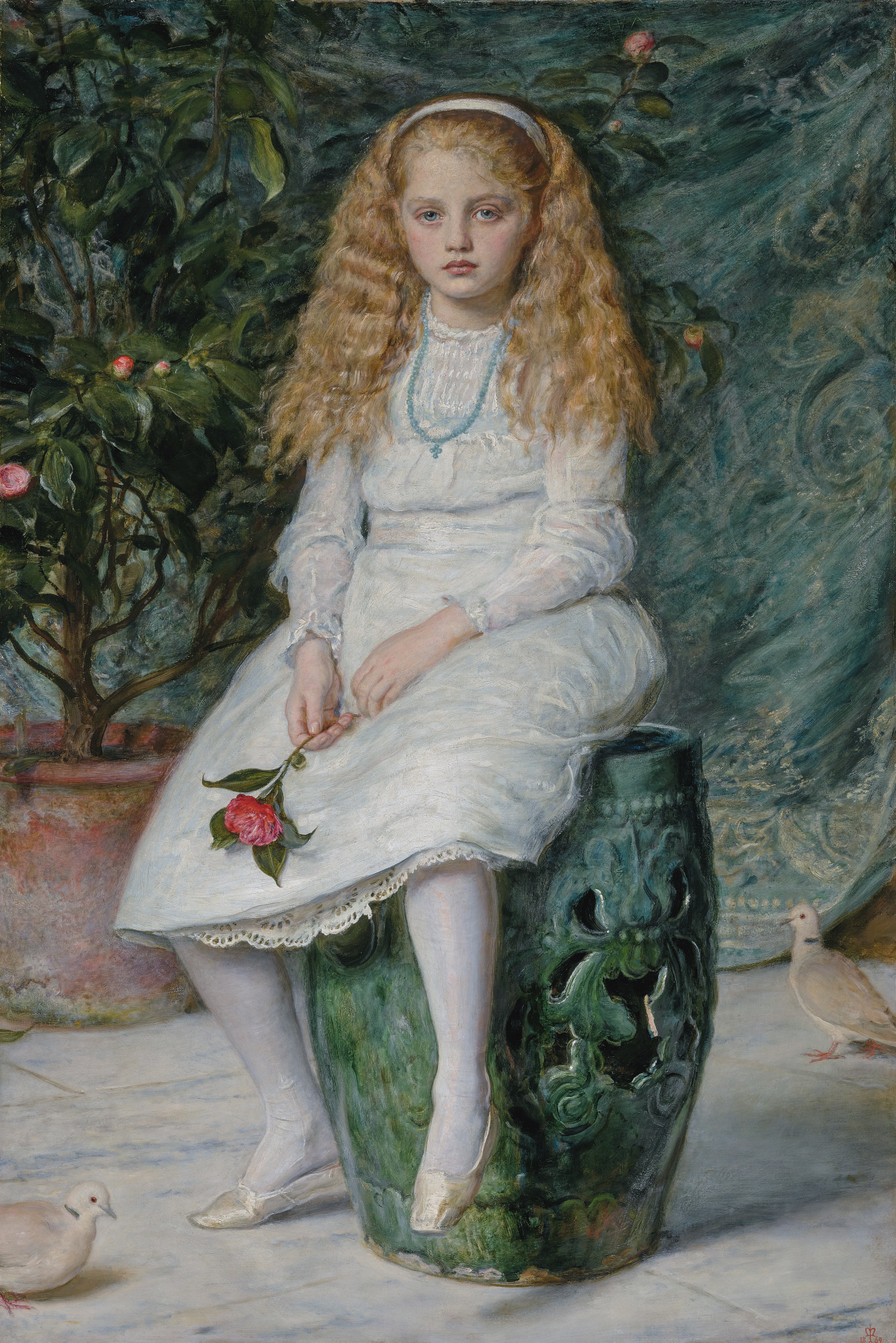 Nina, daughter of Frederick Lehmann oil on canvas 132.1 x 88.9 cm signed b.r. 1869